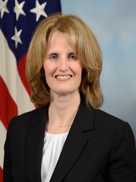 Lisa J. Porter, Deputy Under Secretary of Defense for Research and Engineering